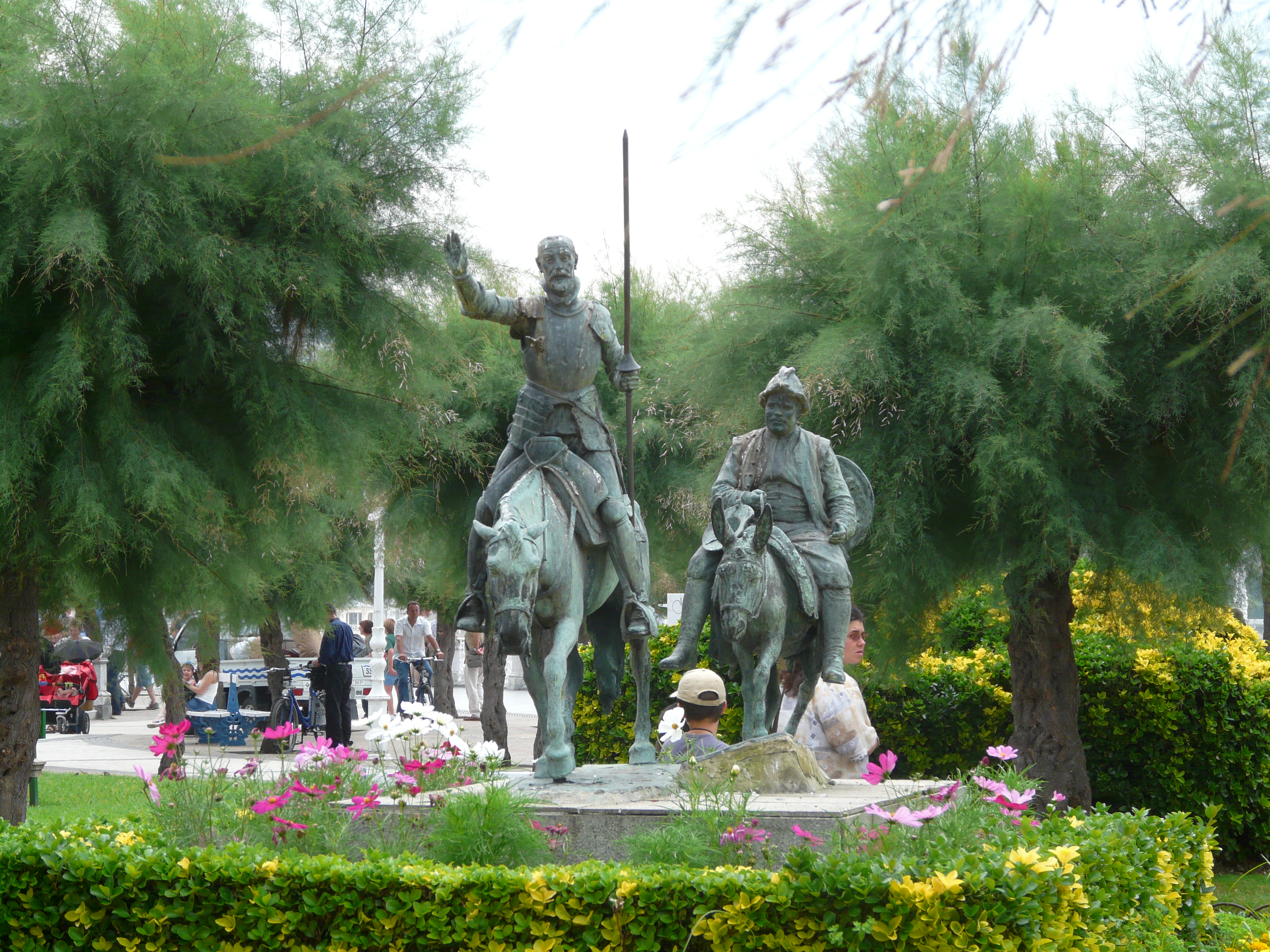 Monument of Don Quixote and Sancho Panza in San Sebastian